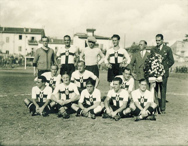 A line-up of S.S. Ambrosiana in the 1928–29 season.